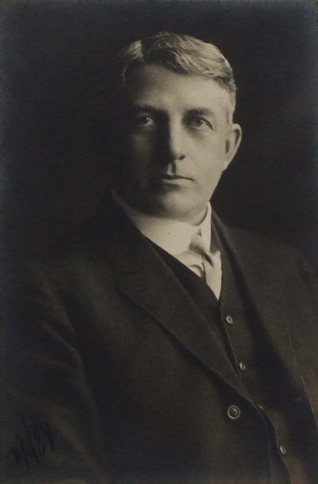 Portrait of Sidney Dean Townley taken in about 1918 in Palo Alto, California